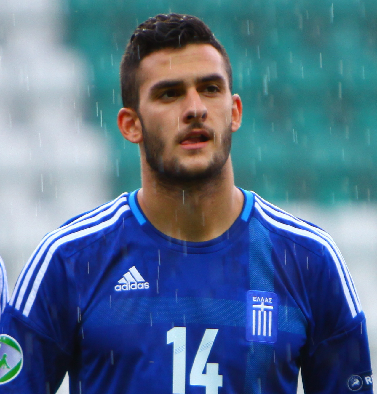 Babis Lykogiannis at the start of an England U19 vs. Greece U19 match for the 2012 UEFA Euro U19 championship.